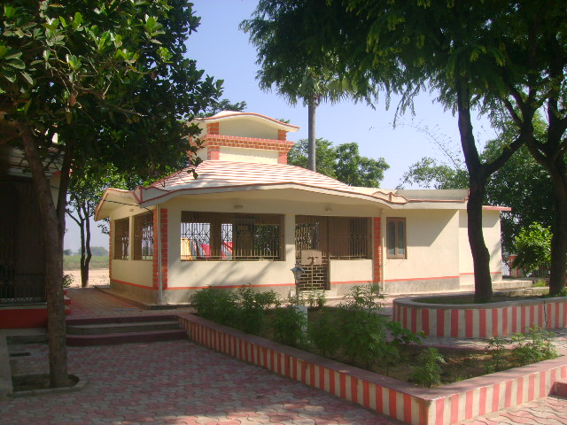 Mangalchandi Temple at Bardhaman district